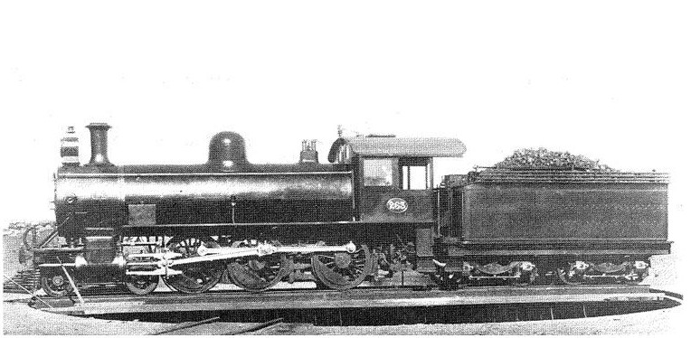 Ex Cape Government Railways Class 6 263 (4-6-0) South African Railways Class 6G 607 (4-6-0)